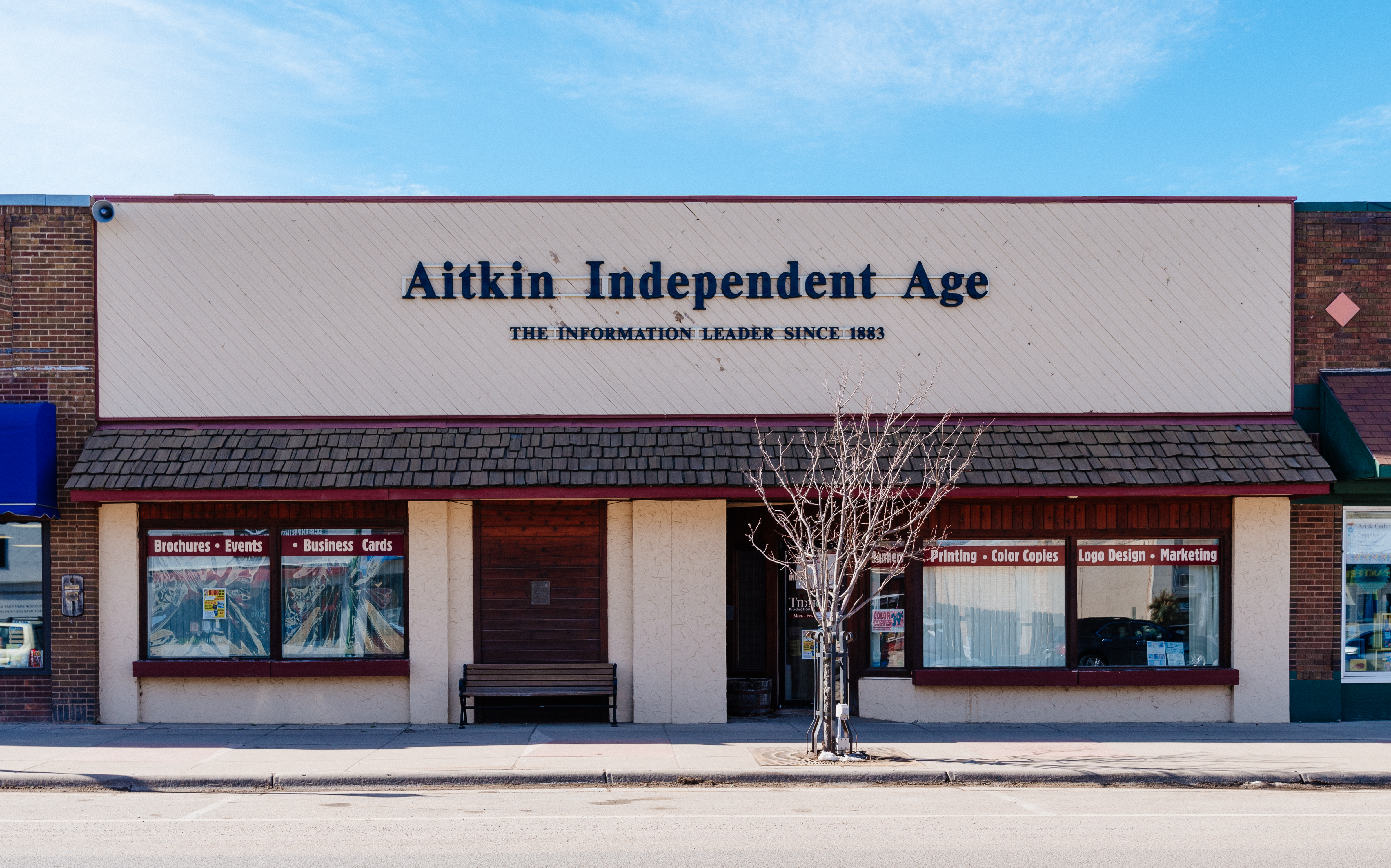 The offices of the Aitkin Independent Age (Aitkin Age), a local newspaper published by MessAge Media, at 213 Minnesota Avenue North, Aitkin, Minnesota. -- © 2018 Tony Webster +1 (202) 930-9200